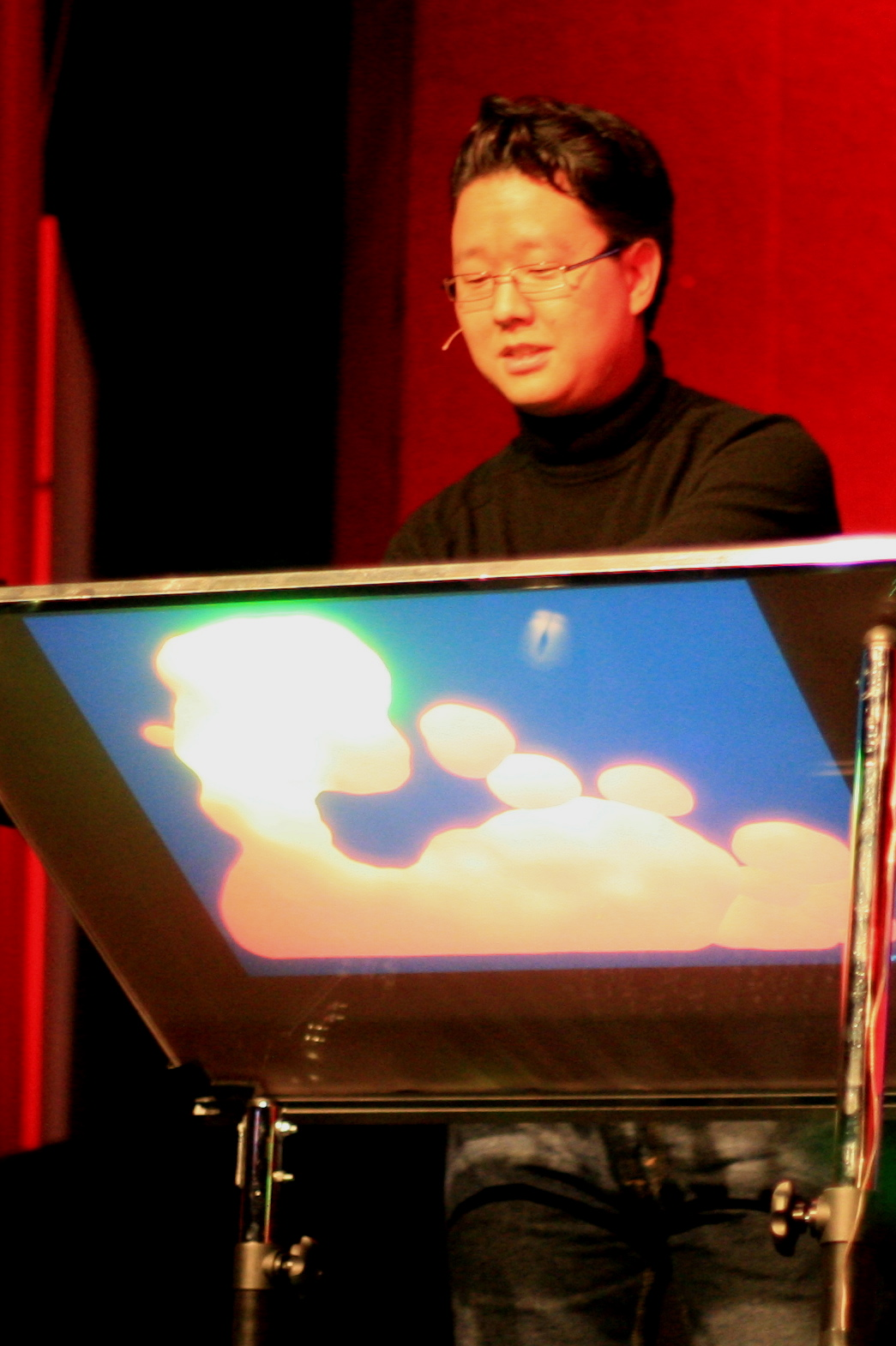 Jefferson Y. Han (research scientist for New York University's (NYU) Courant Institute of Mathematical Sciences) displays his "interface-free" touch-driven computer screen at TED 2006.